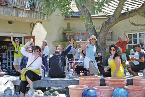 Garden Centers of America hosts an annual tour of garden centers around the United States, held in June.